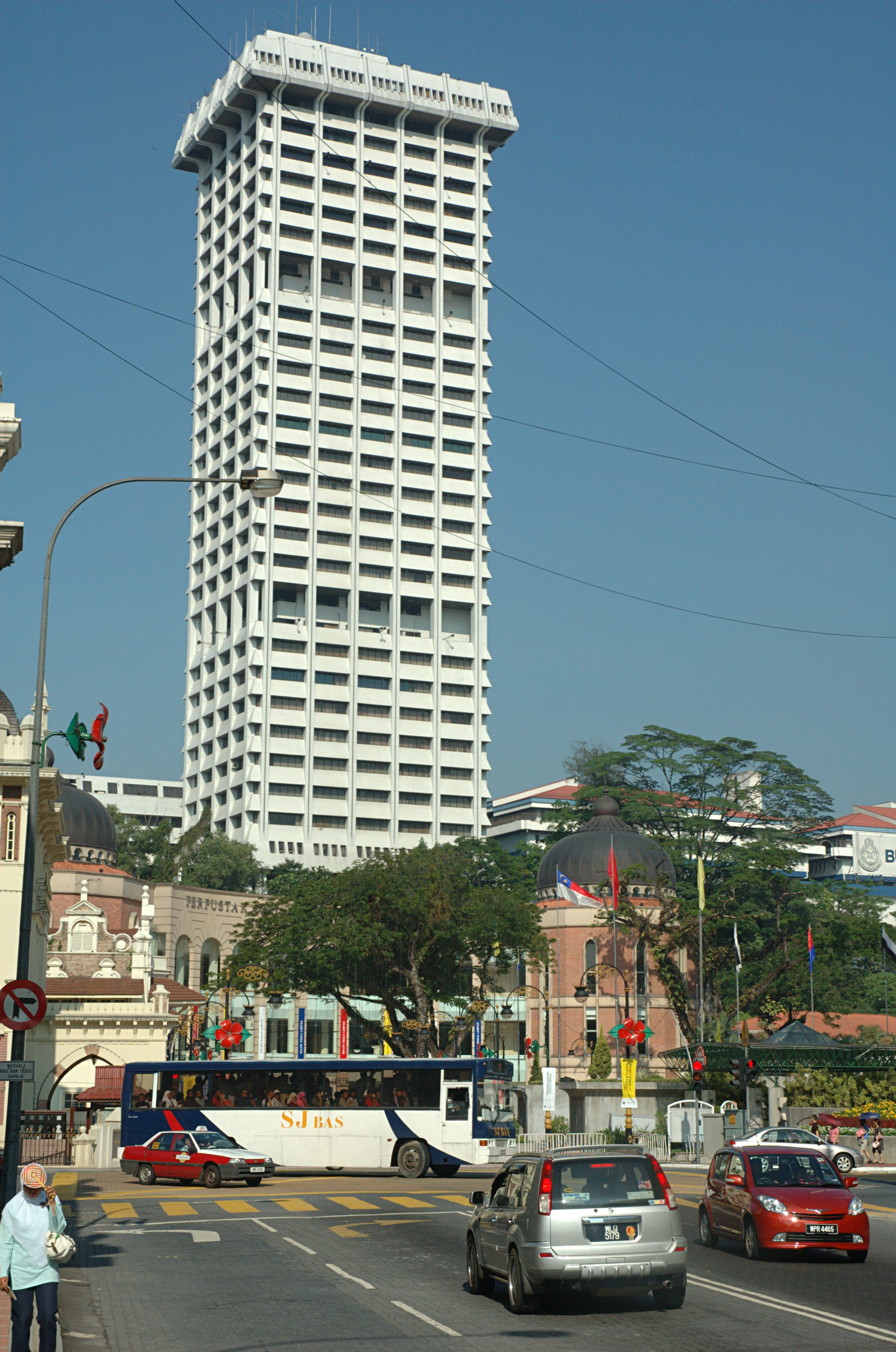 Tower of the Royal Malaysian Police HQ, Bukit Aman, overlooking Merdeka Square, seen from the end of Leboh Pasar Basar. Kuala Lumpur, Malaysia.